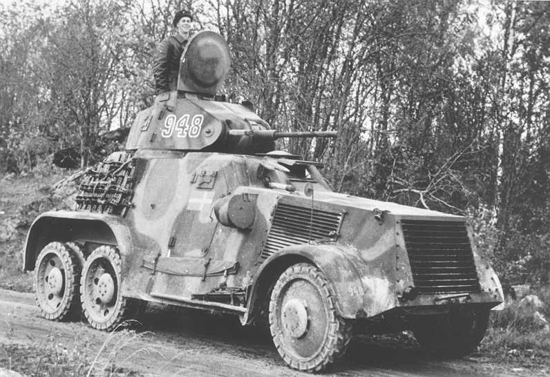 Swedish Landsverk L-180 armoured car